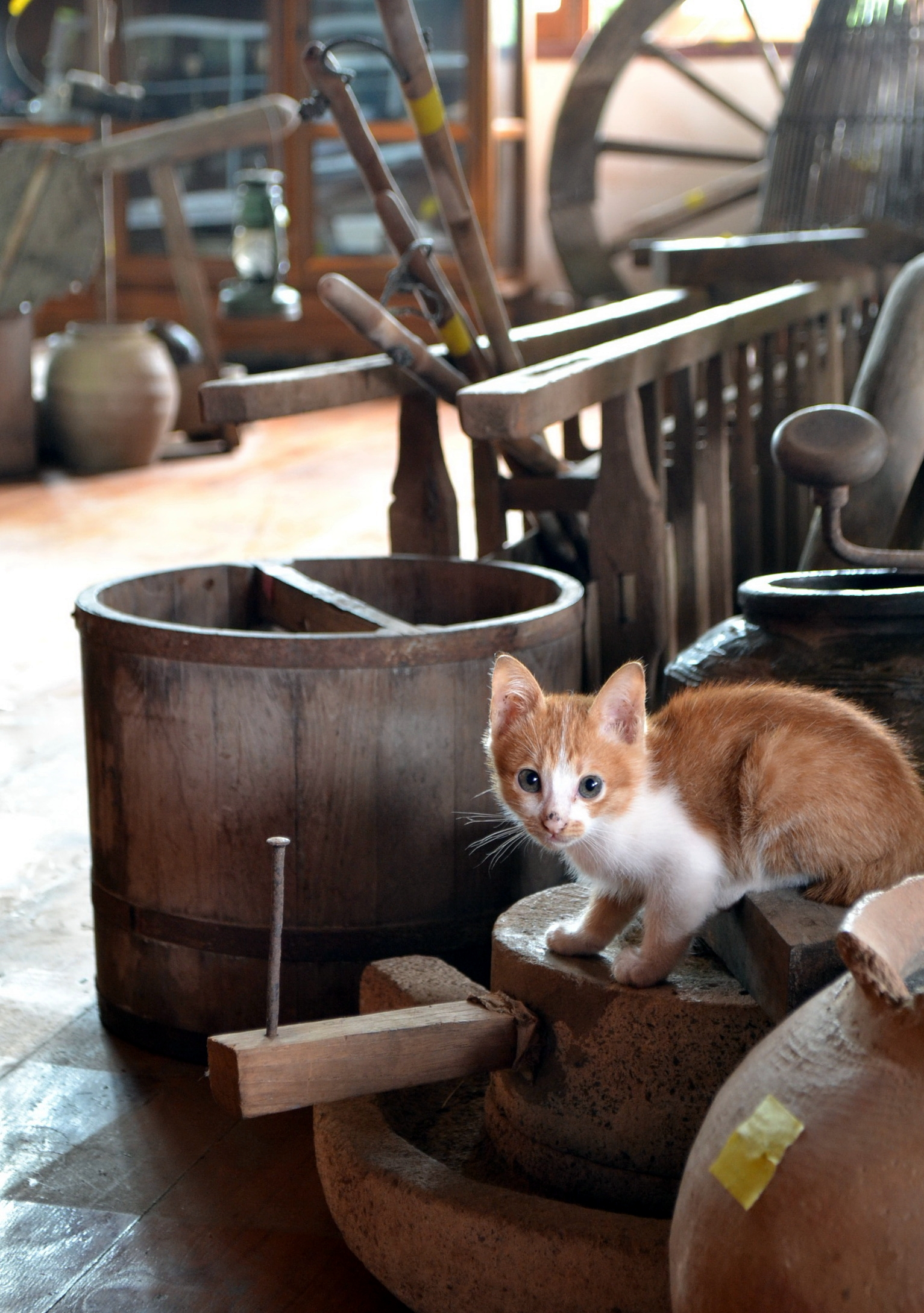 Wat Kungtapao Local Museum. at Wat Khung Taphao, Ban Khung Taphao, Khung Taphao subdistrict, Mueang Uttaradit, Uttaradit Province, Thailand.) on December 2, 2012.